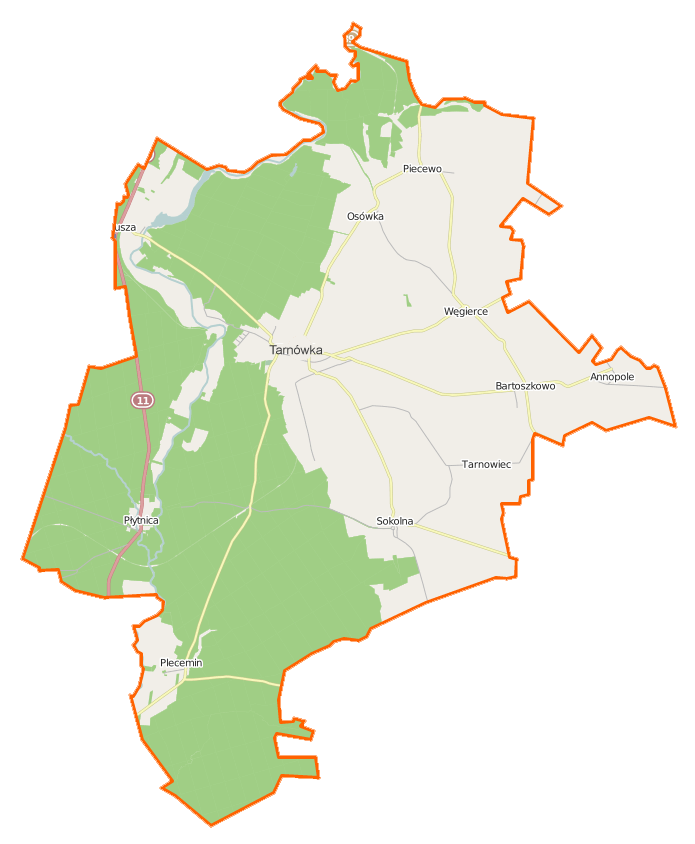 Map of Gmina Tarnówka, Poland This map of Tarnówka (gmina) was created from OpenStreetMap project data, collected by the community. This map may be incomplete, and may contain errors. Don't rely solely on it for navigation.